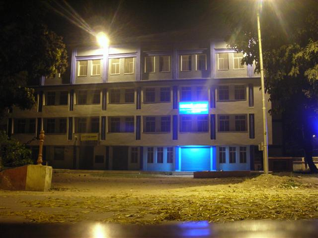 The is image of the central library of NIT Patna